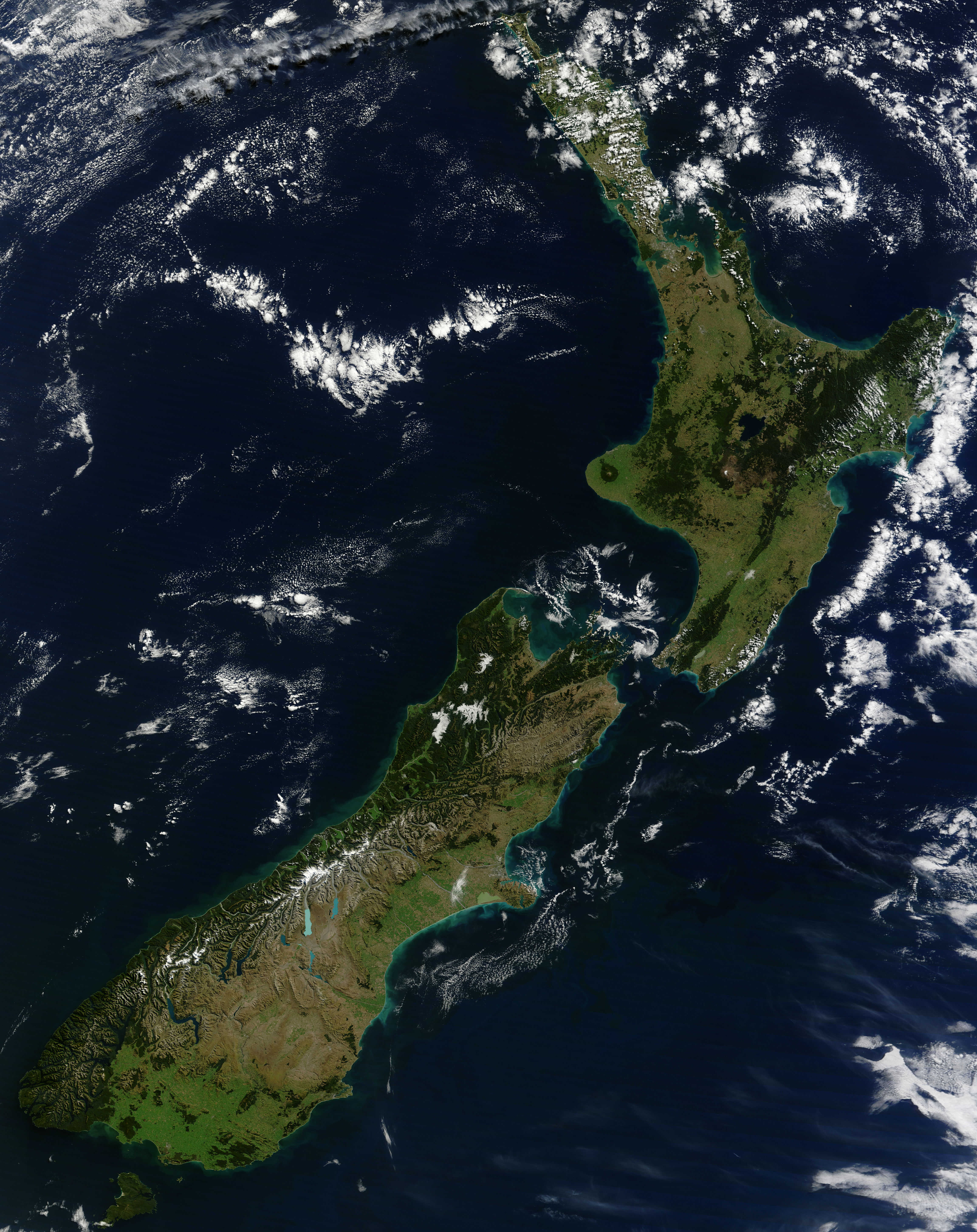 From space, the west coast of New Zealand resembles the greenstone for which it is named. Dark green native forest extends from the mountain tree line to the shore. Southern beech, rimu and kahikatea (both tall conifers) once covered more than 80 percent of New Zealand, but the lowland forests are now less extensive. The lighter green land in the southeast was once forested, but is now grassland or agriculture.